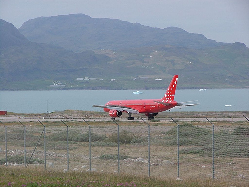 Air Greenland Boeing 757-236 plane at the Narsarsuaq airfield.